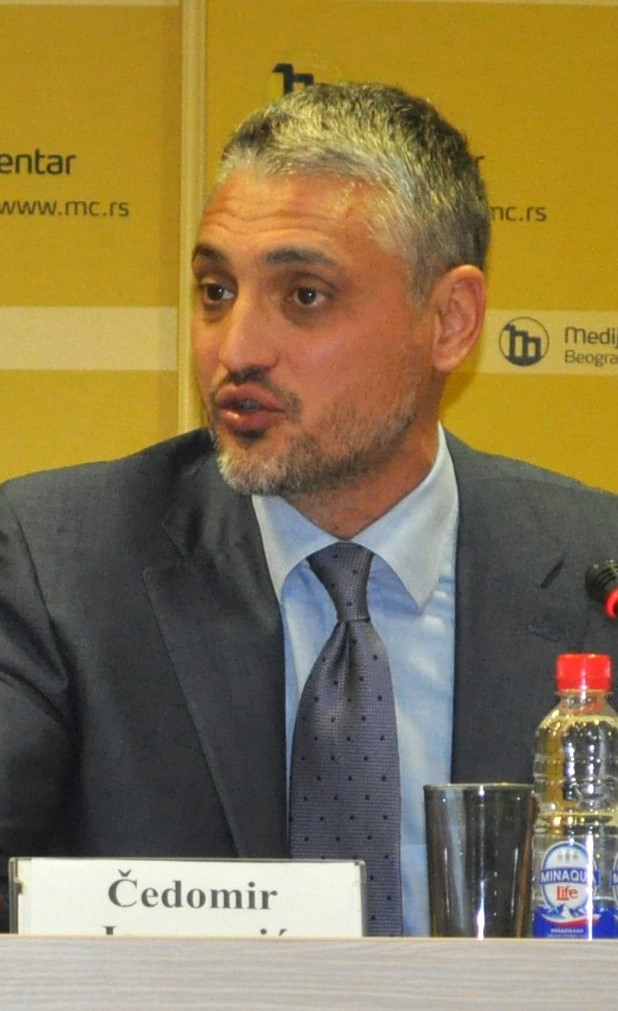 Cedomir Jovanovic, Serbian politician